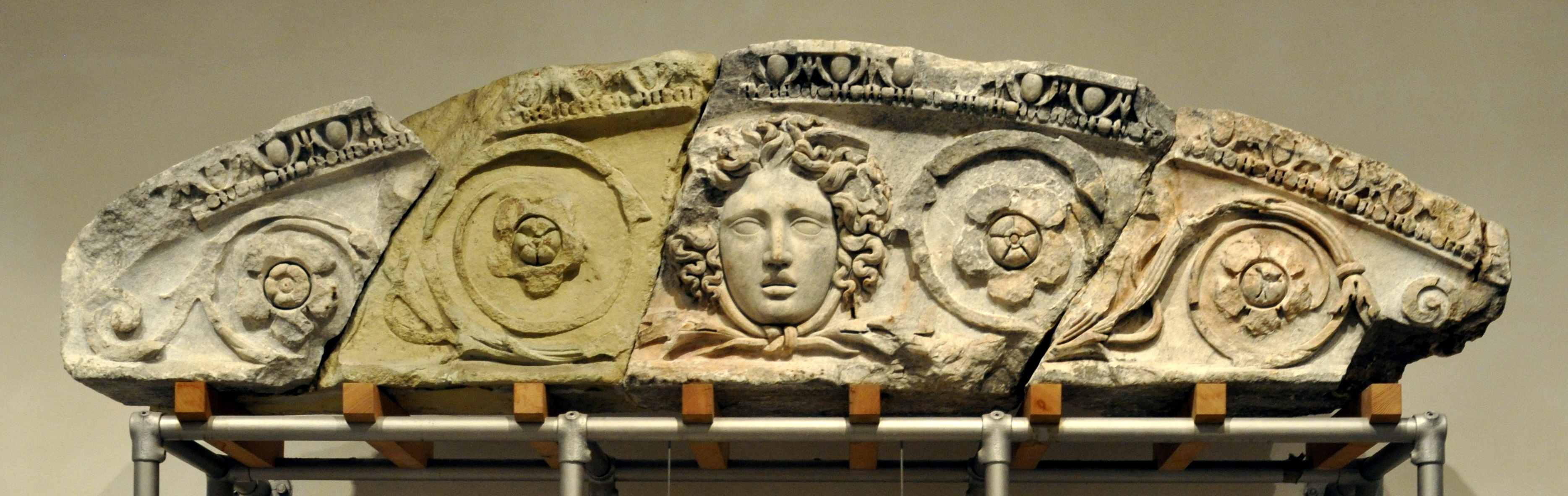 Artwork from the Celsus library in Ephesos; Vienna, Ephesos-Museum